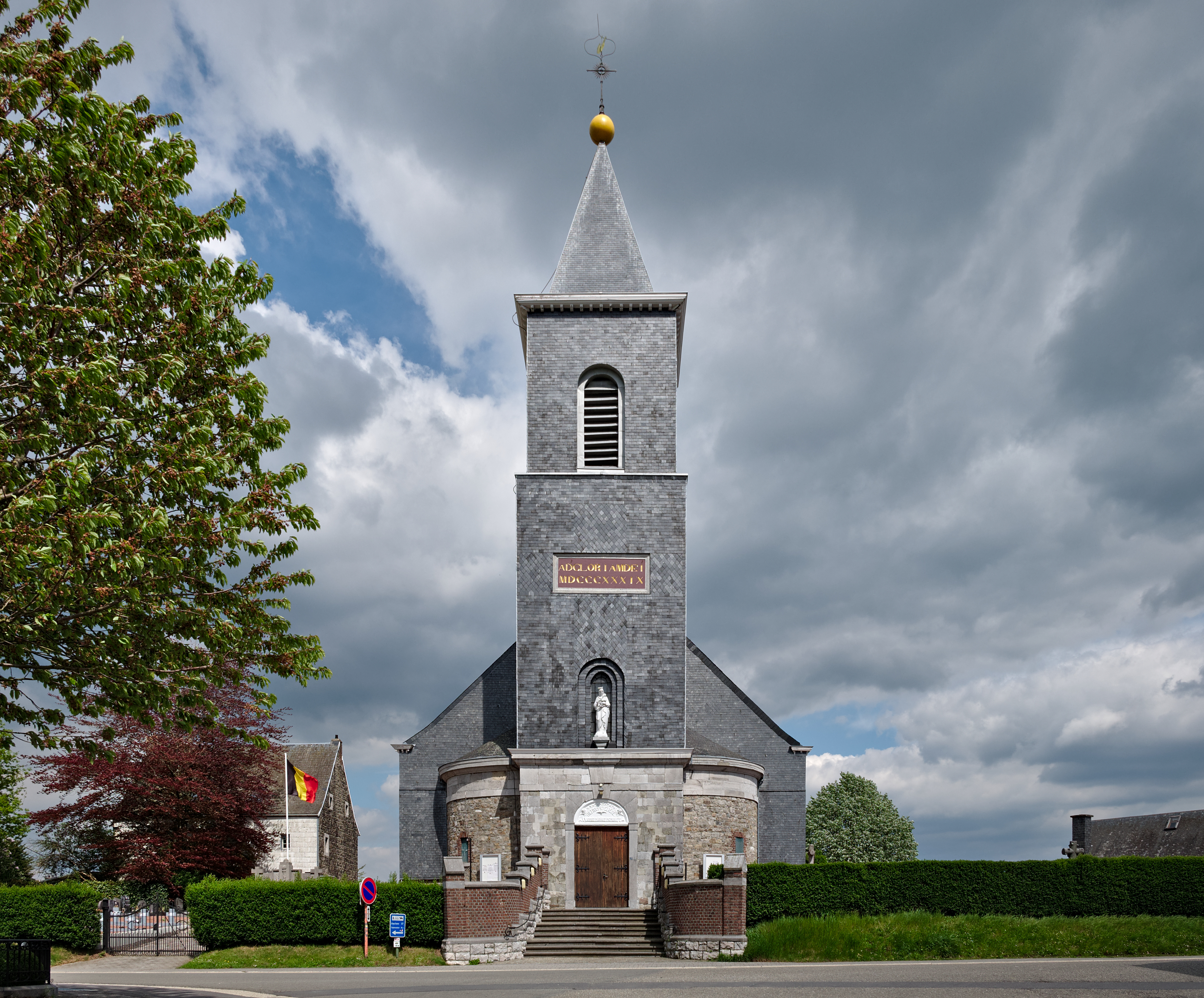 Église Saint-Brice in Plombières, Belgium